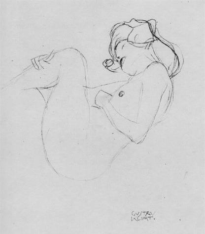 Study for Danae